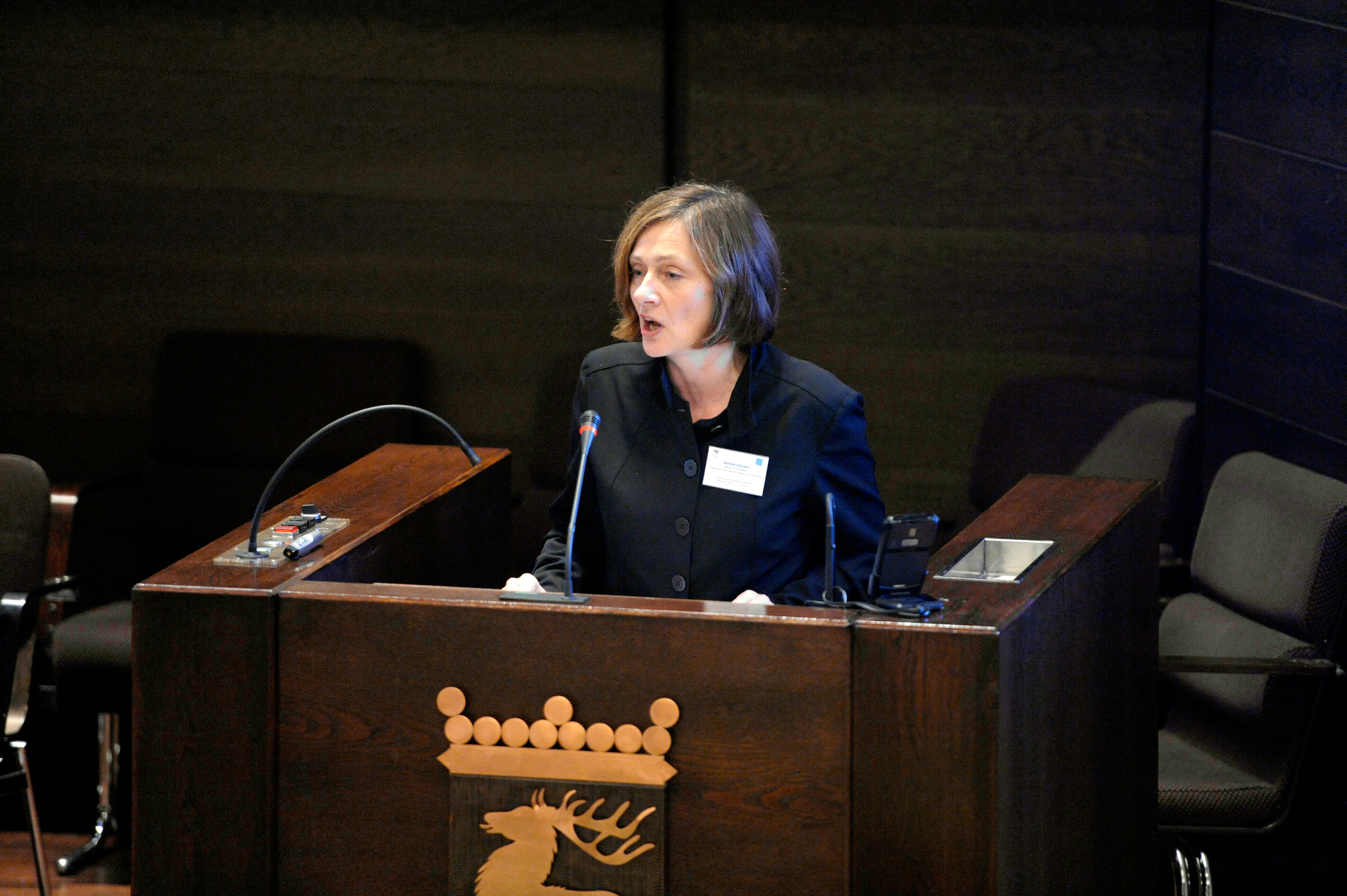 Gabriele Dobusch MP Hamburg. BSPC 19 Mariehamn Åland 2010